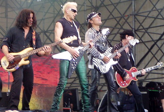 Gli Scorpions al Gods of Metal 2007